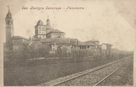 San Benigno Canavese postcard